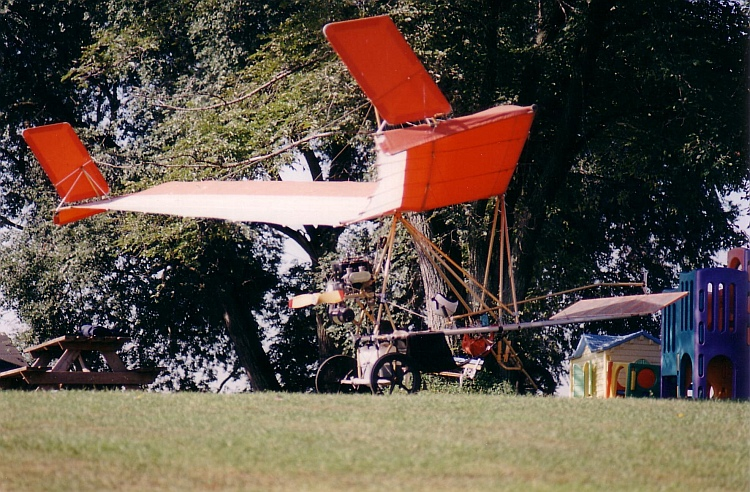 I took this photo of a Pterodactyl Ascender II+2 in 2001.